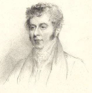 Sir Robert Wilmot Horton - Sir Robert John Wilmot-Horton, 3rd Baronet, GCH (21 December 1784 – 31 May 1841) was a British politician during the first third of the 19th century. He was a member of the Canningite faction of the Tory party and served as Member of Parliament for Newcastle-under-Lyme from 1818 until 1830.